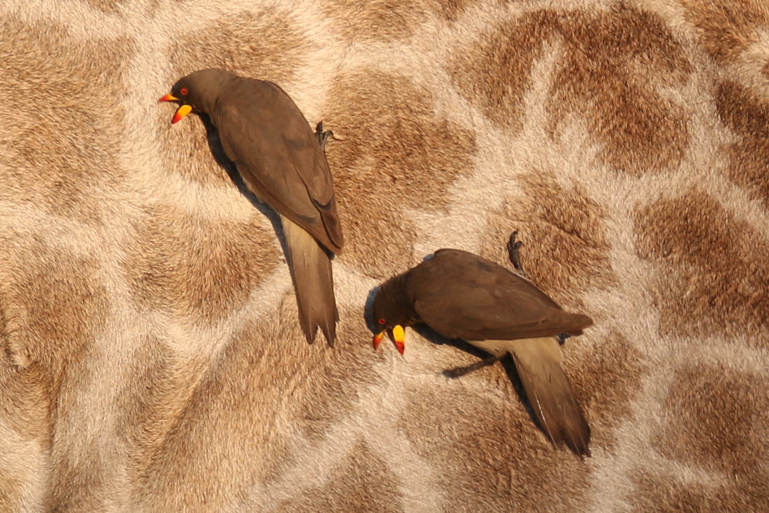 Yellow-billed Oxpeckers Buphagus africanus cleaning a Giraffe, Linyanti, Caprivi, Namibia.